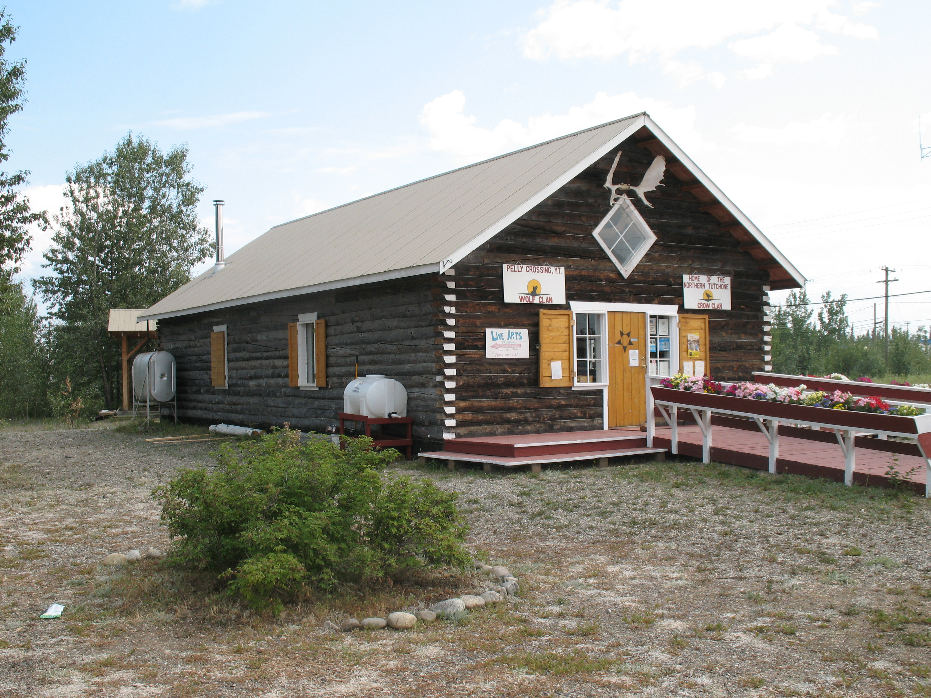 Big Jonathan House